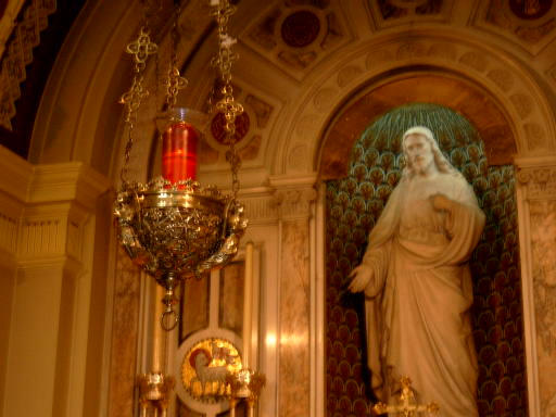 image of Sanctuary lamp - no copyright. Own image, permission to take it granted